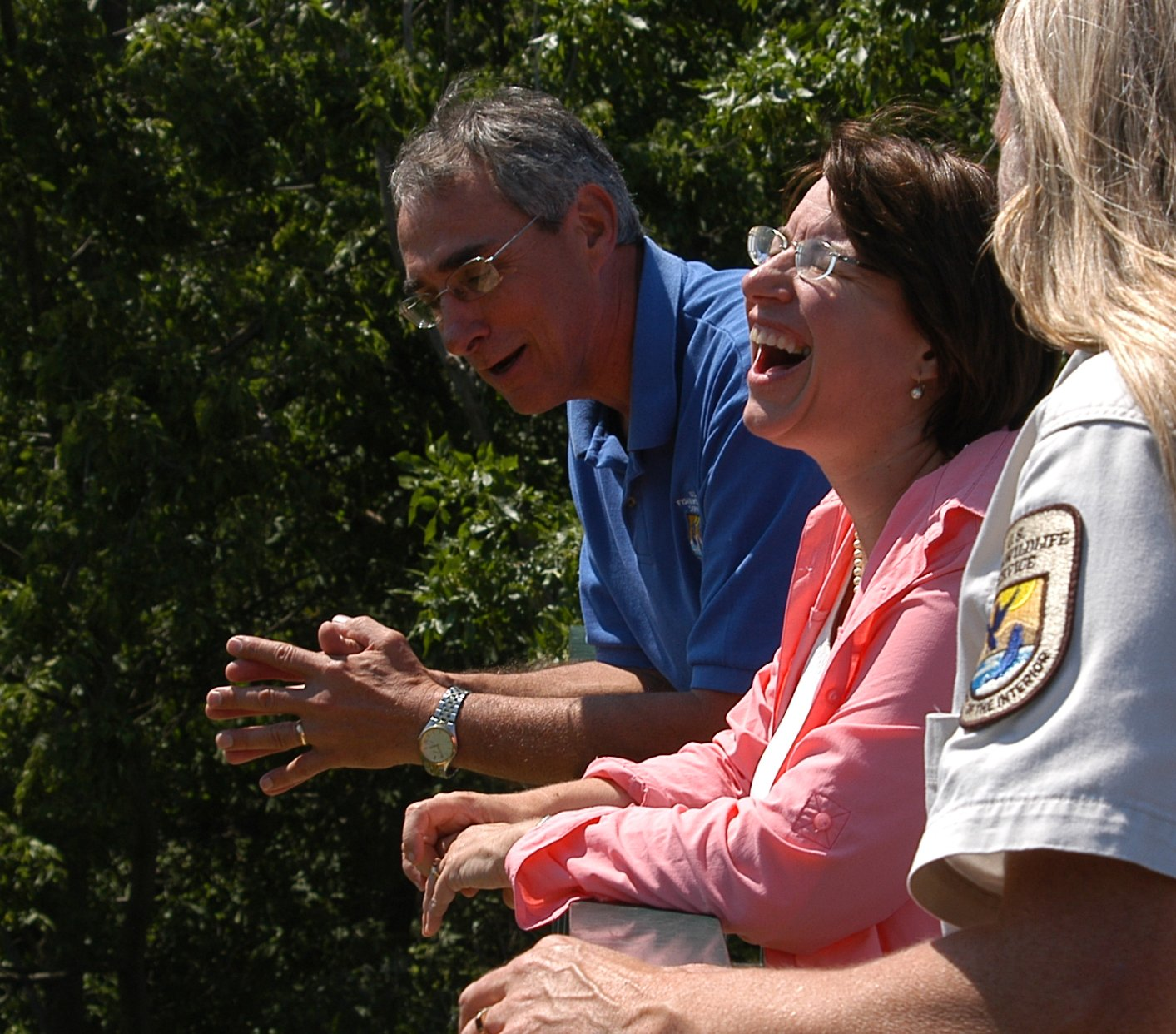 Midwest Regional Director, Tom Melius, Senator Amy Klobuchar and Deputy Refuge Manager, Jeanne Holler, enjoy a moment at the grand re-opening of Minnesota Valley National Wildlife Refuge's Bloomington Visitor Center." Photo by Tina Shaw/USFWS